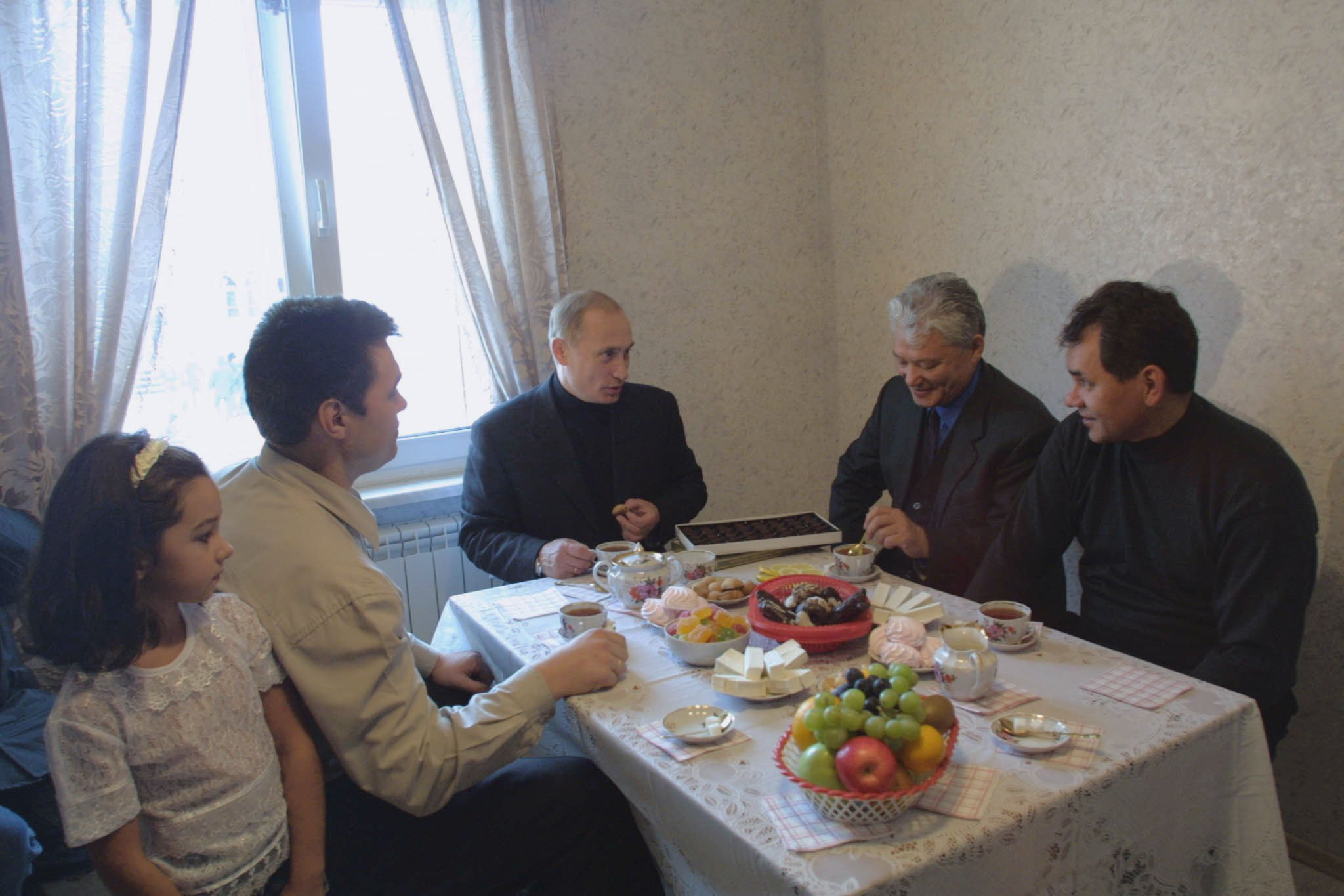 YAKUTIA. President Putin visiting the Alrosa neighbourhood in Lensk with Yakut President Mikhail Nikolayev (2nd to the right) and Russian Emergencies Relief Minister Sergei Shoigu (right).